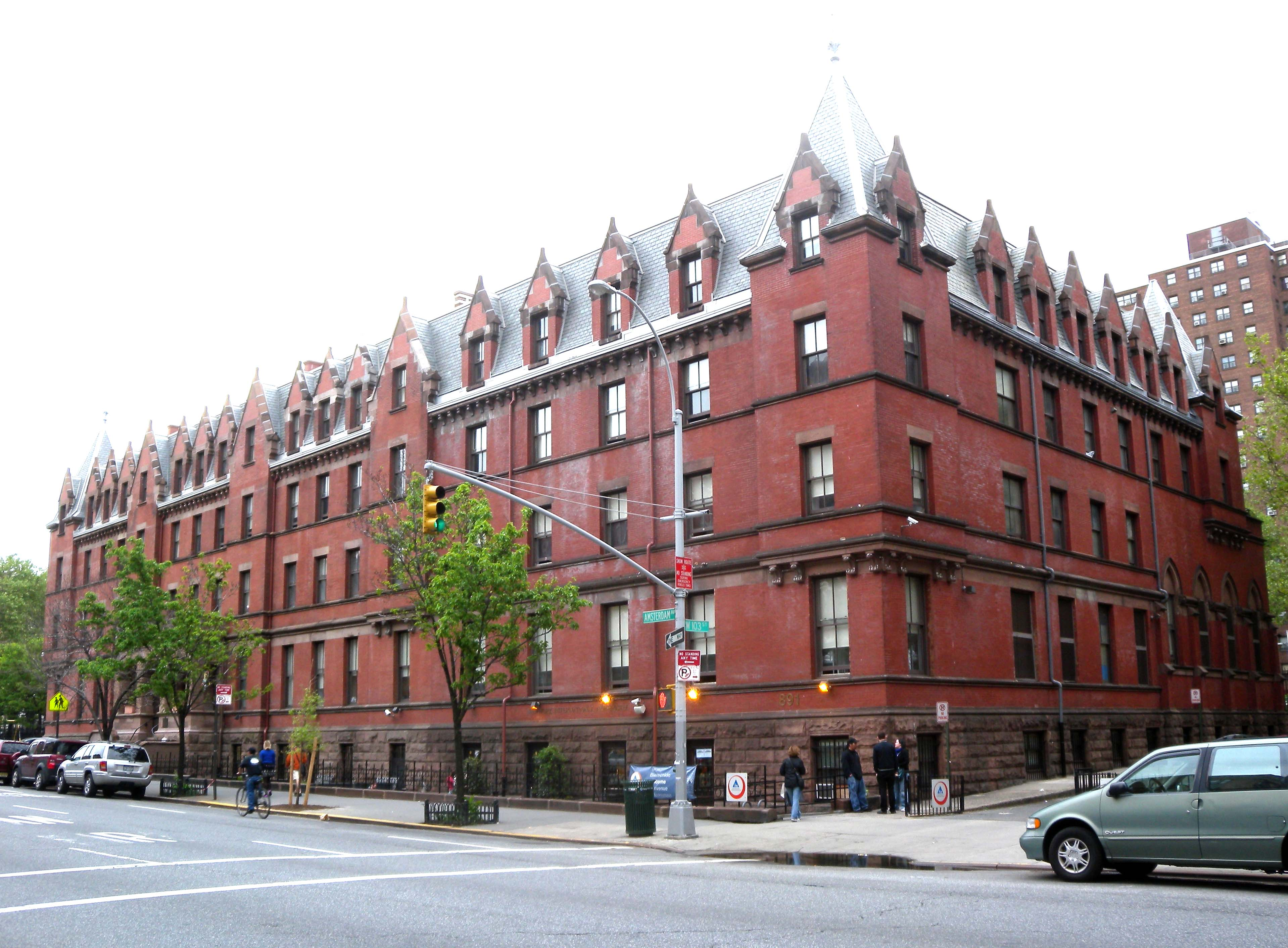 Looking northeast across Amsterdam Avenue and 103d Street at Association Residence for Respectable Aged Indigent Females, now American Youth Hostels building, formerly Home for Indigent Females, on a cloudy late afternoon. NYCLPC designation 1983. ZIP 10025.